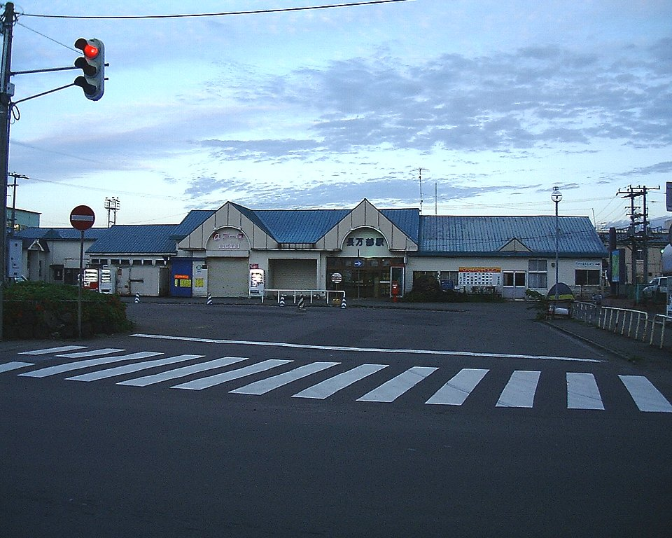 Oshamambe Station (Japan)